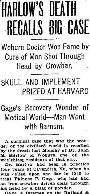 Article (partial), "Harlow's Death Recalls Big Case", p.12, recounting the case of Phineas Gage and the role in it of John Martyn Harlow